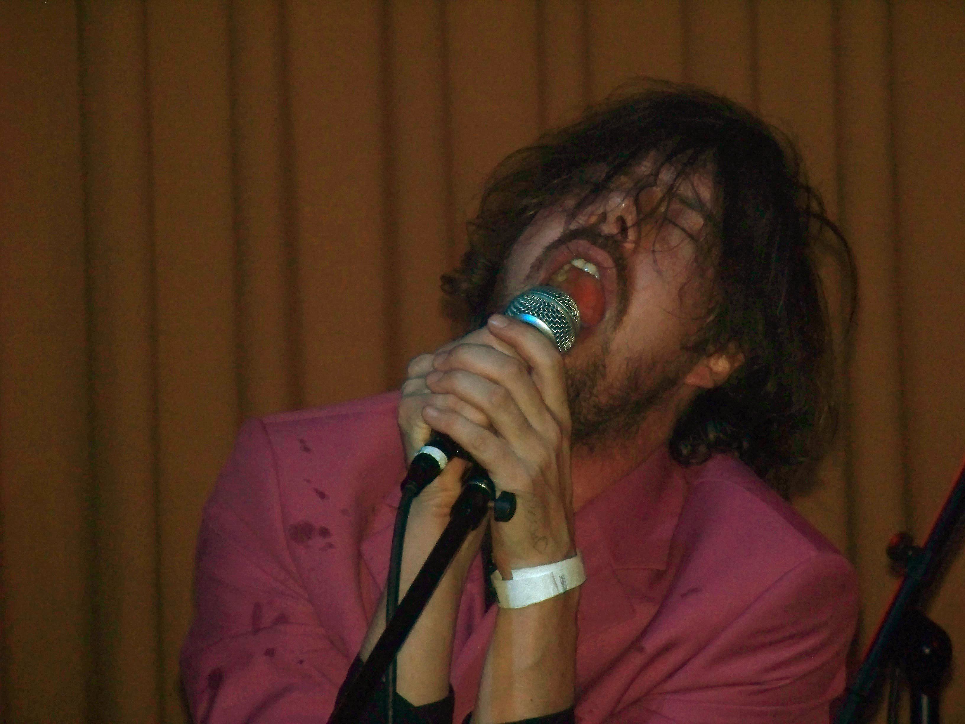 Angus Andrew, singer of New York's Liars, at a location called Warsaw, New York